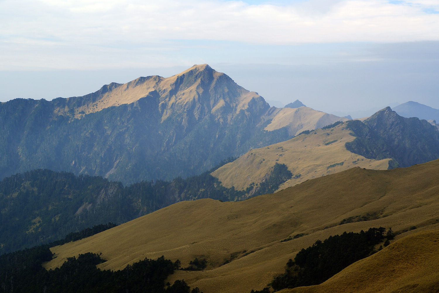 Mountain Chi Lai(Chi Lai Shan) of Taiwan- 奇萊主山